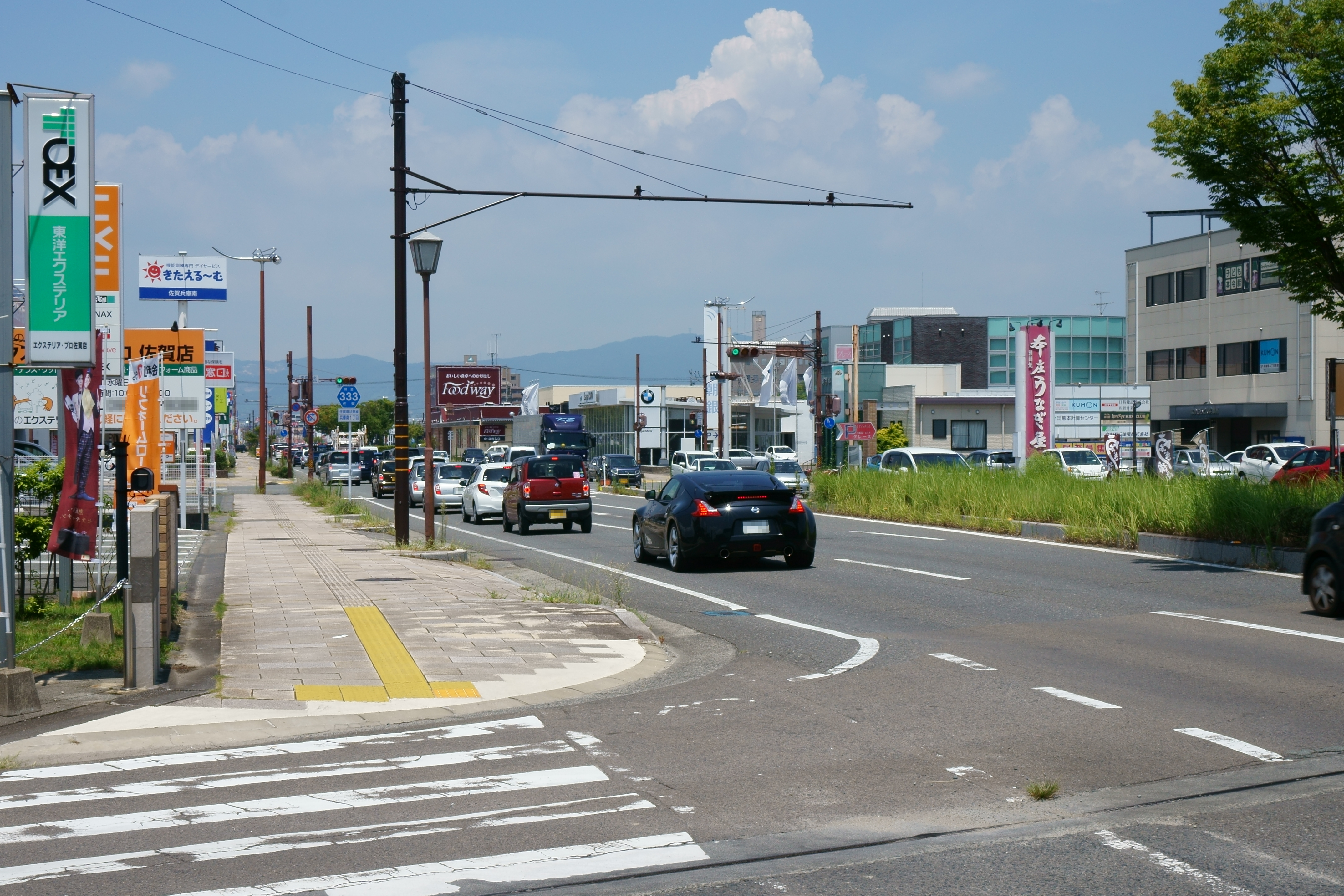 Genkaibashi kita intersection in Saga prefectural road No.333, in Hyogominami, Saga city, Saga prefecture, Japan.